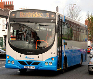 Ulsterbus bus 239 (reg. MEZ 7239), a 2007 Volvo B7R single-decker with Wrightbus Eclipse SchoolRun bodywork, operating the 12.15 Belfast (Europa Buscentre) to Banbridge service, making its way along the Lisburn Road near Windsor Avenue.